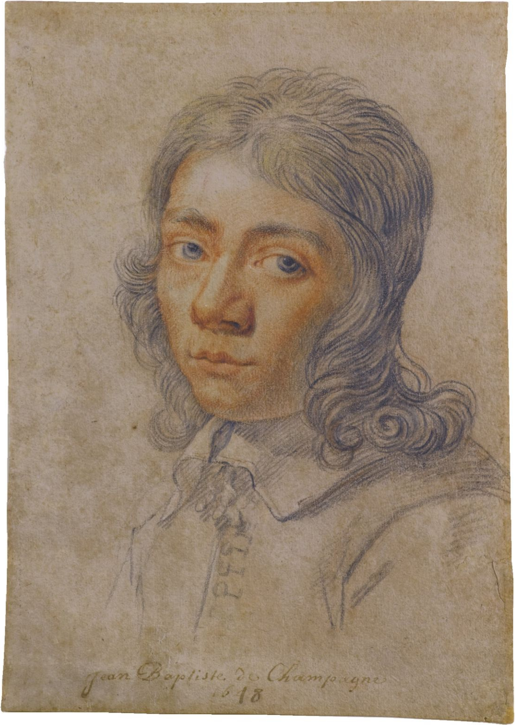 Selfportrait at the age of seventeen